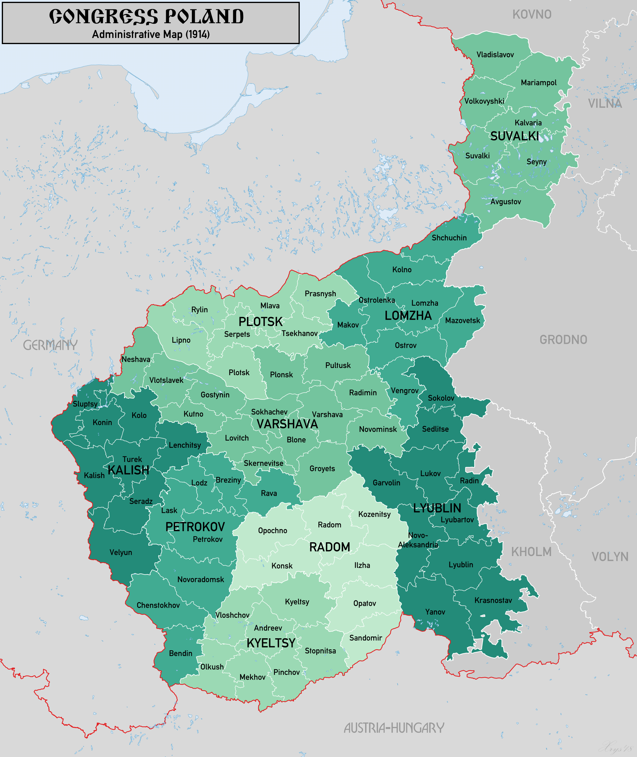 Map of Congress Poland of the Russian Empire in 1914, showing the Governorates and Districts. Source Map Data: Специальная карта европейской России (1:420k), Ubersichtskarte von Mitteleuropa (1:300k), Mapa Krolestwa Polskiego (1:504K), courtesy of